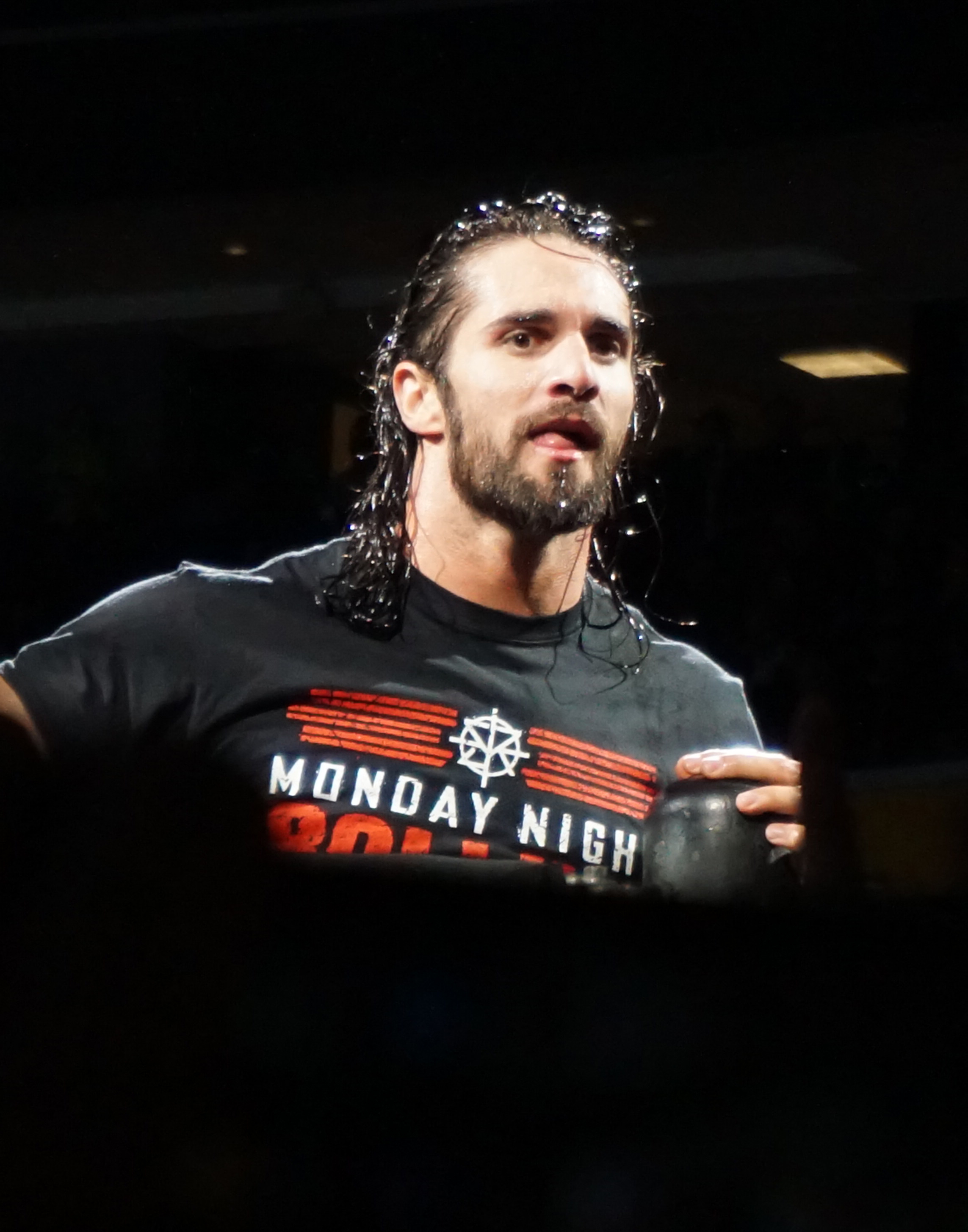 Rollins at the WWE live show in Buffalo, NY on March 25th, 2018.